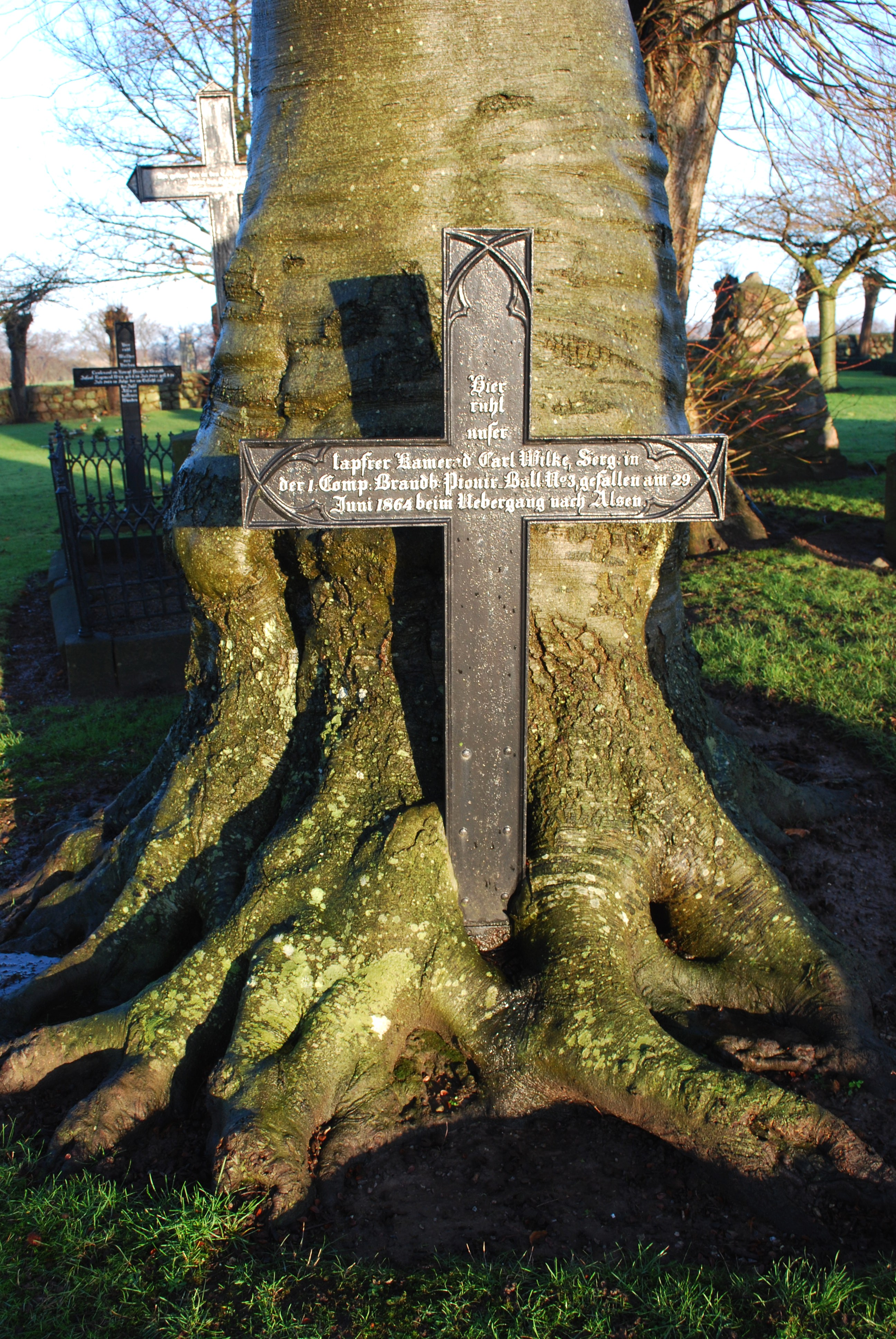 Sottrup Kirke - Vester Sottrup - Denmark